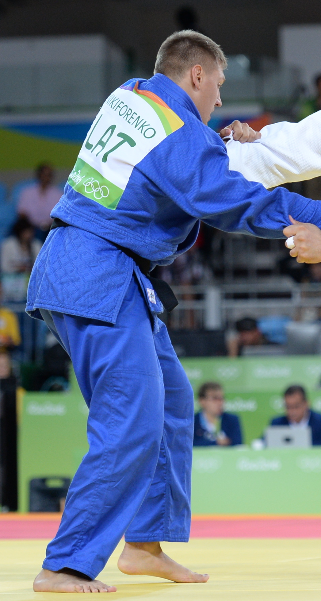 Judo at the 2016 Summer Olympics, Kokauri vs Ņikiforenko